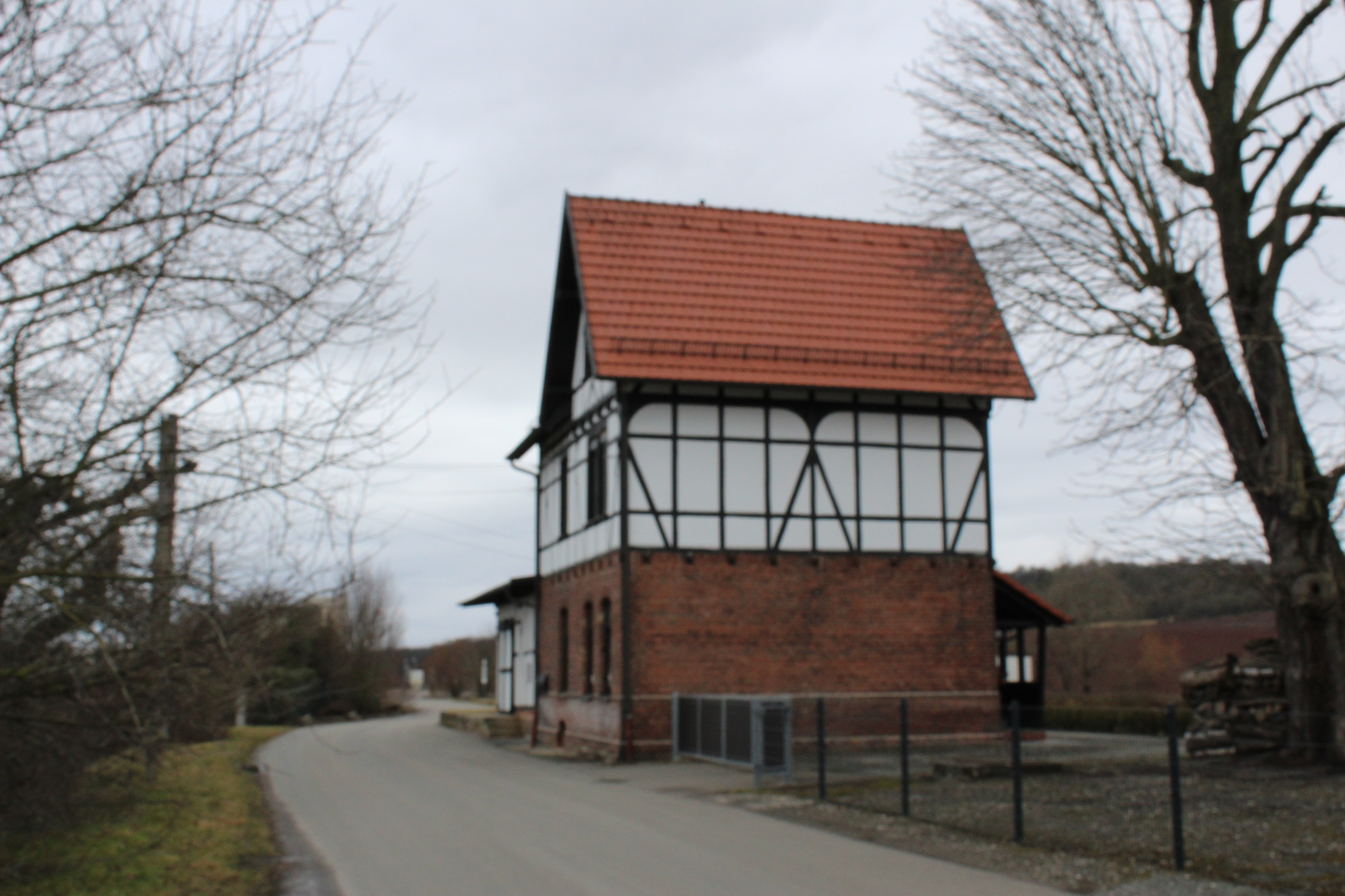 train station Serba